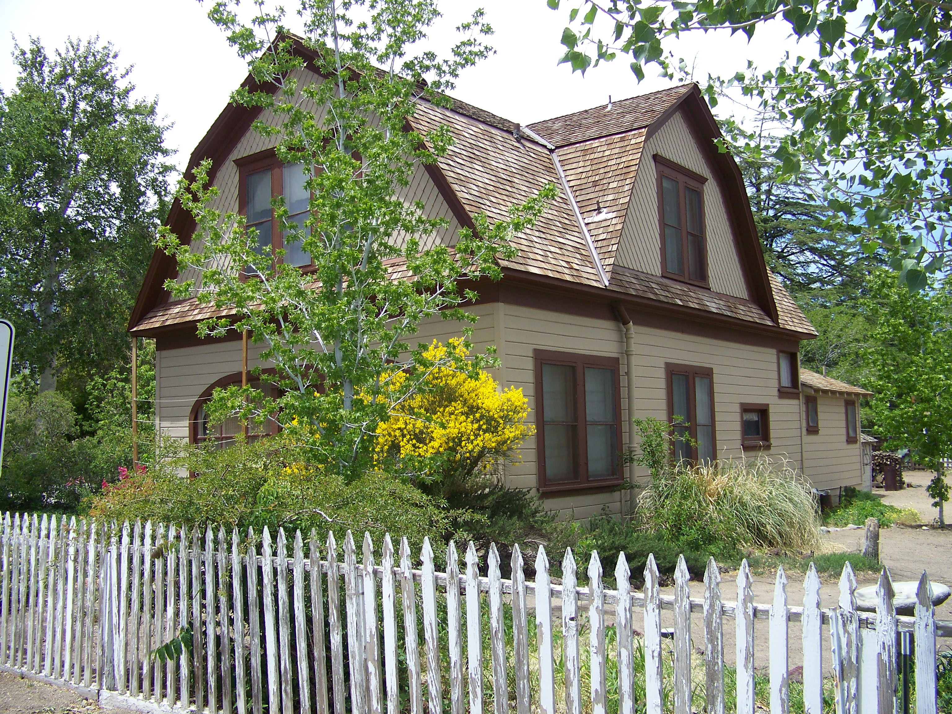 A photograph of the home of author Mary Hunter Austin in Independence, California. This house is mentioned in her best know book, "The Land of Little Rain".